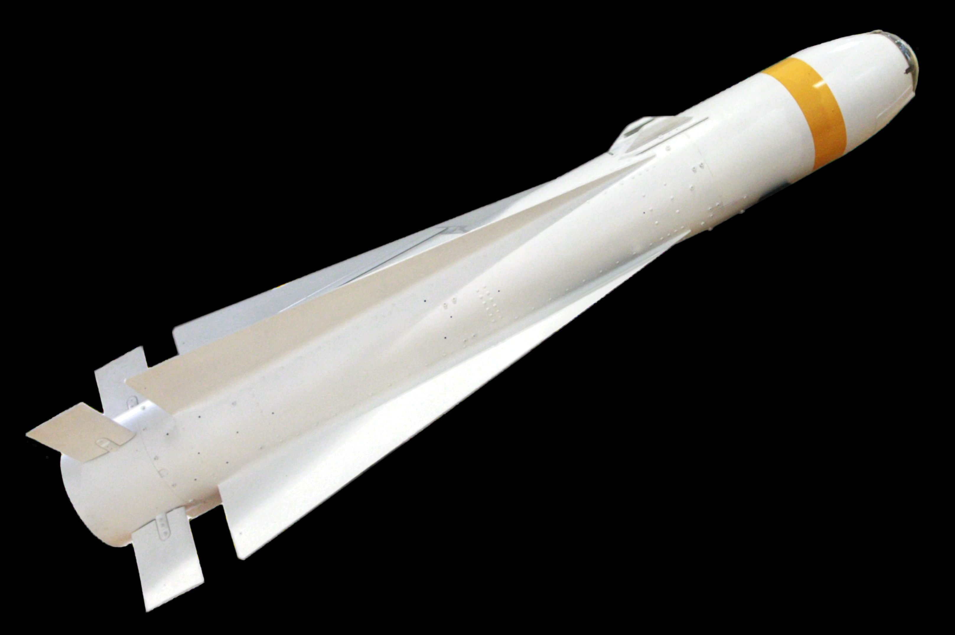 Inert AGM-65 Maverick missile of the Swiss Air Force, on display at Payerne Airbase.